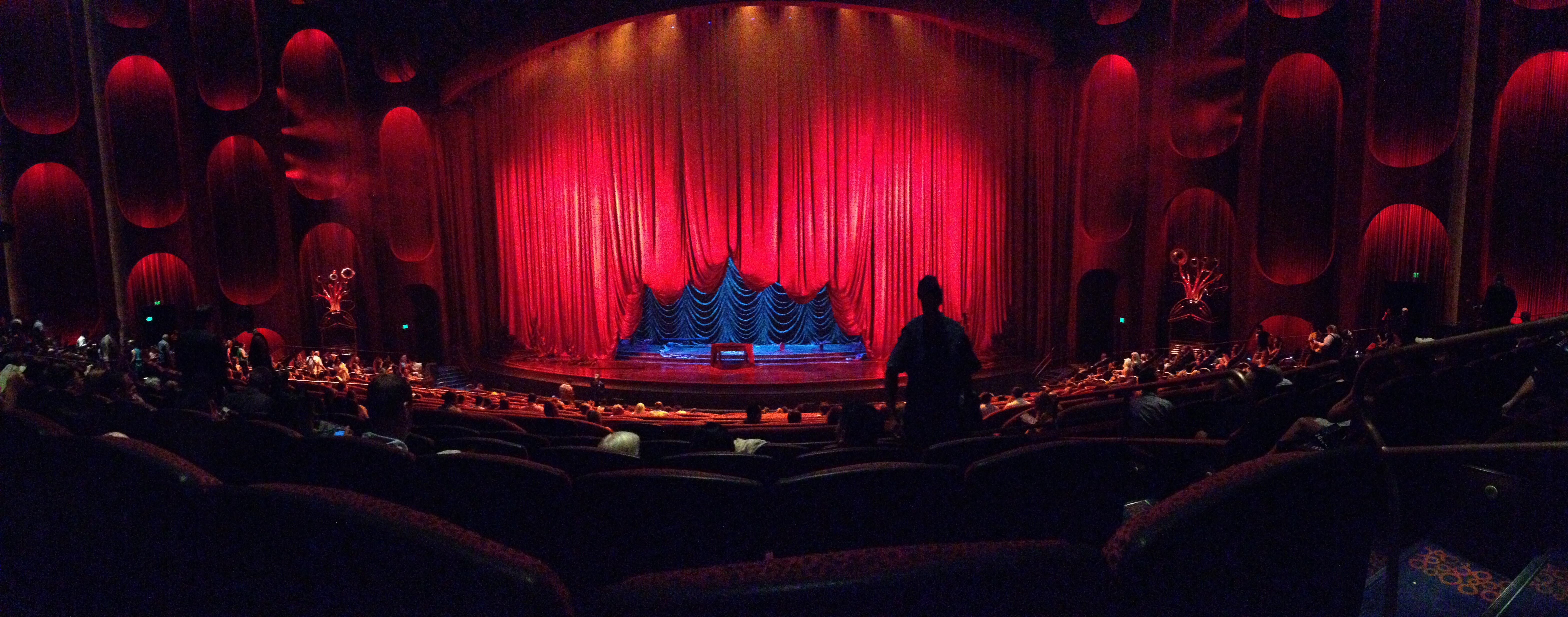 Aria's Zarkana Theatre